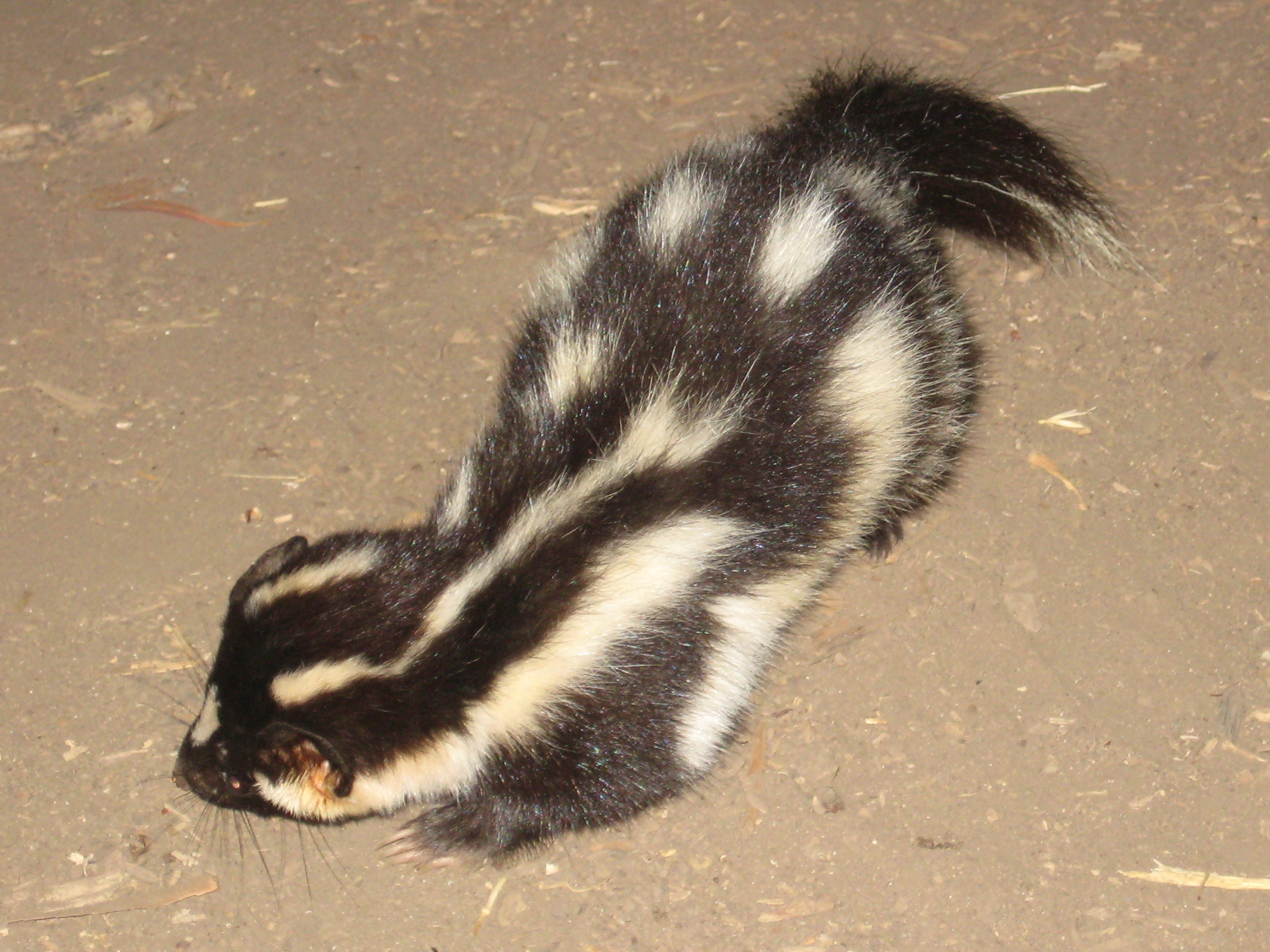 Spilogale gracilis amphiala on Santa Cruz Island, Scorpion Campground